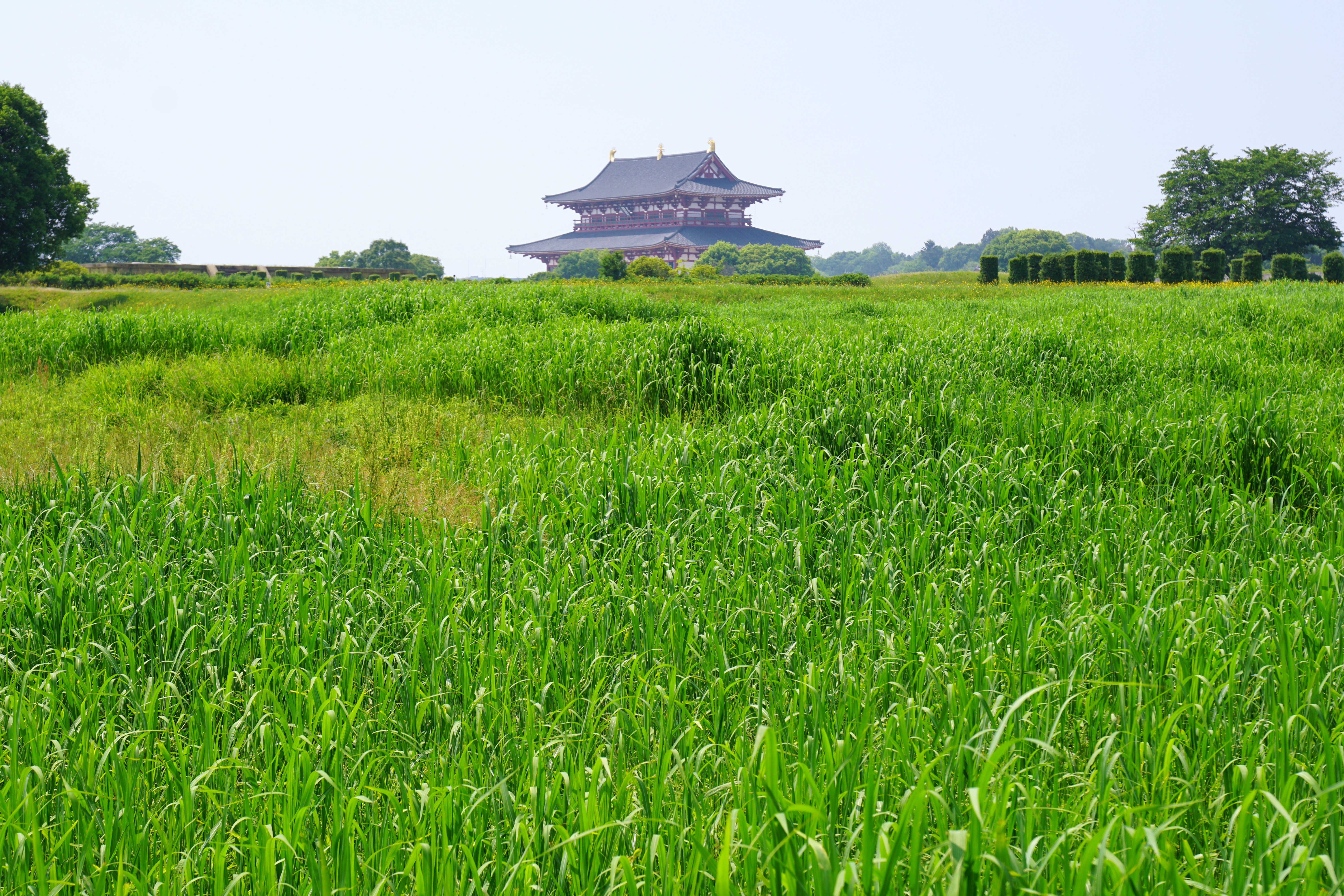 Heijō-kyō ruins in Nara, Nara prefecture, Japan.